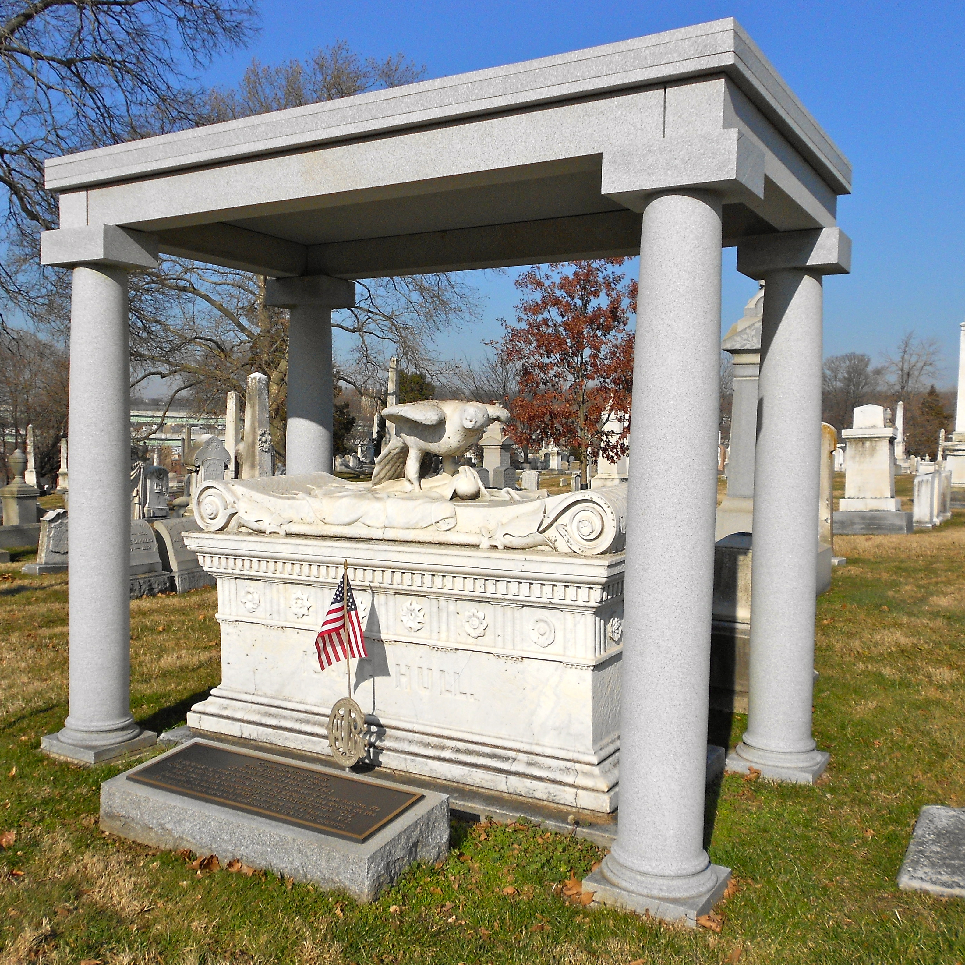 Garve of Isaac Hull, Commodore USN, in the Laurel Hill Cemetery, Philadelphia